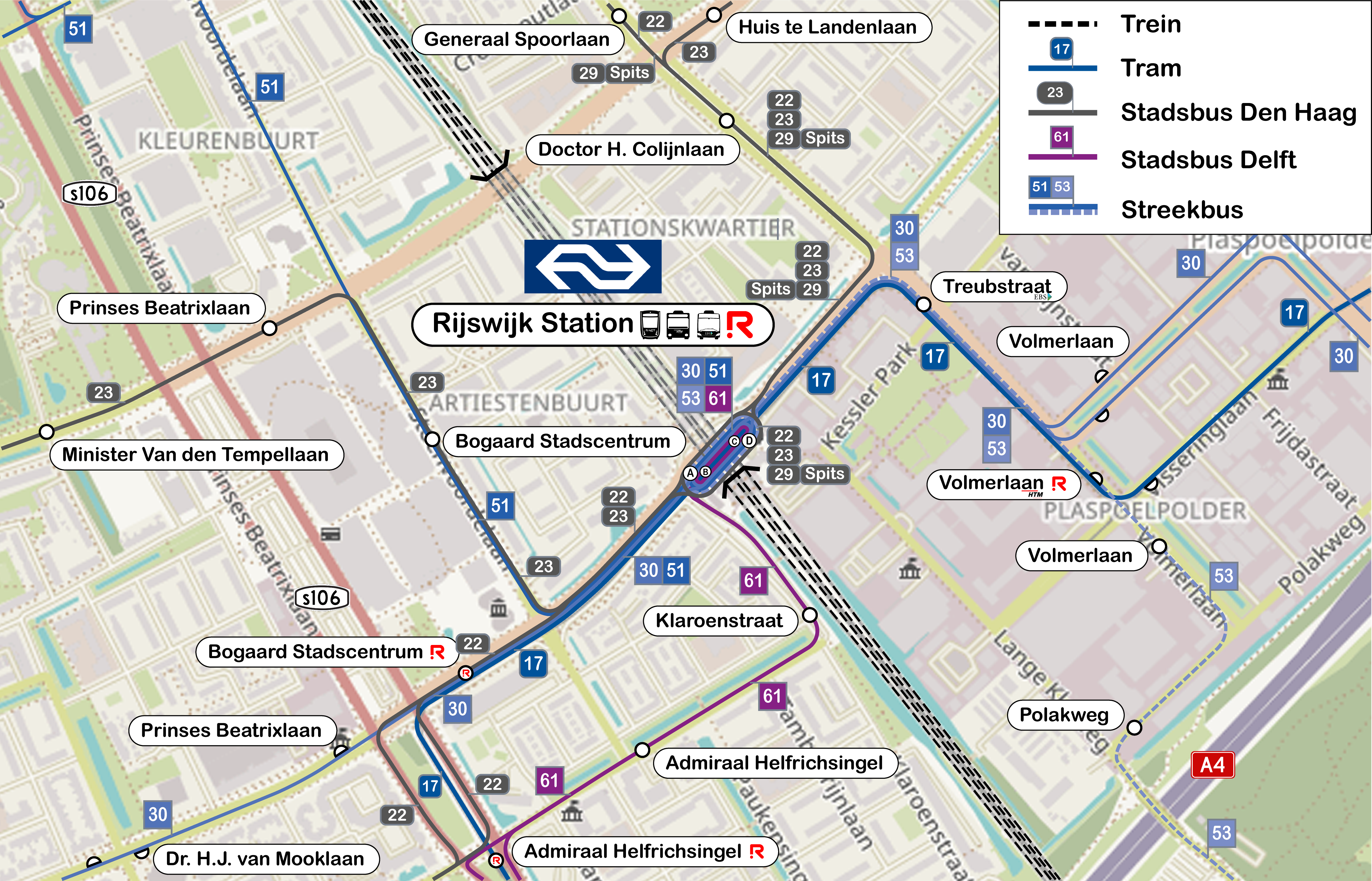 This is the area surrounding the public transport node Station Rijswijk. (Situation 2015-02-15)